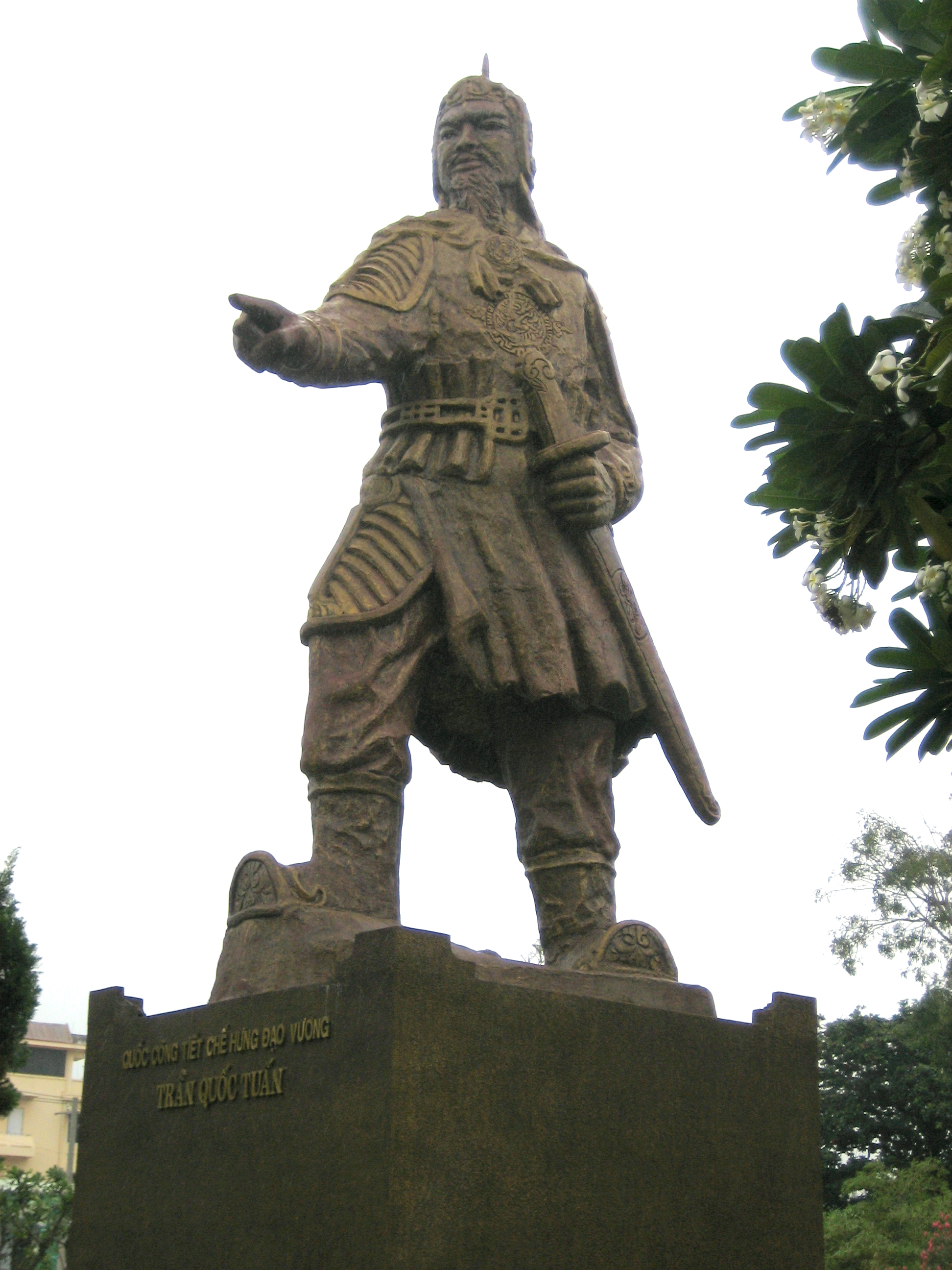 Statue of Tran Hung Dao, Vung Tau City, Vietnam.